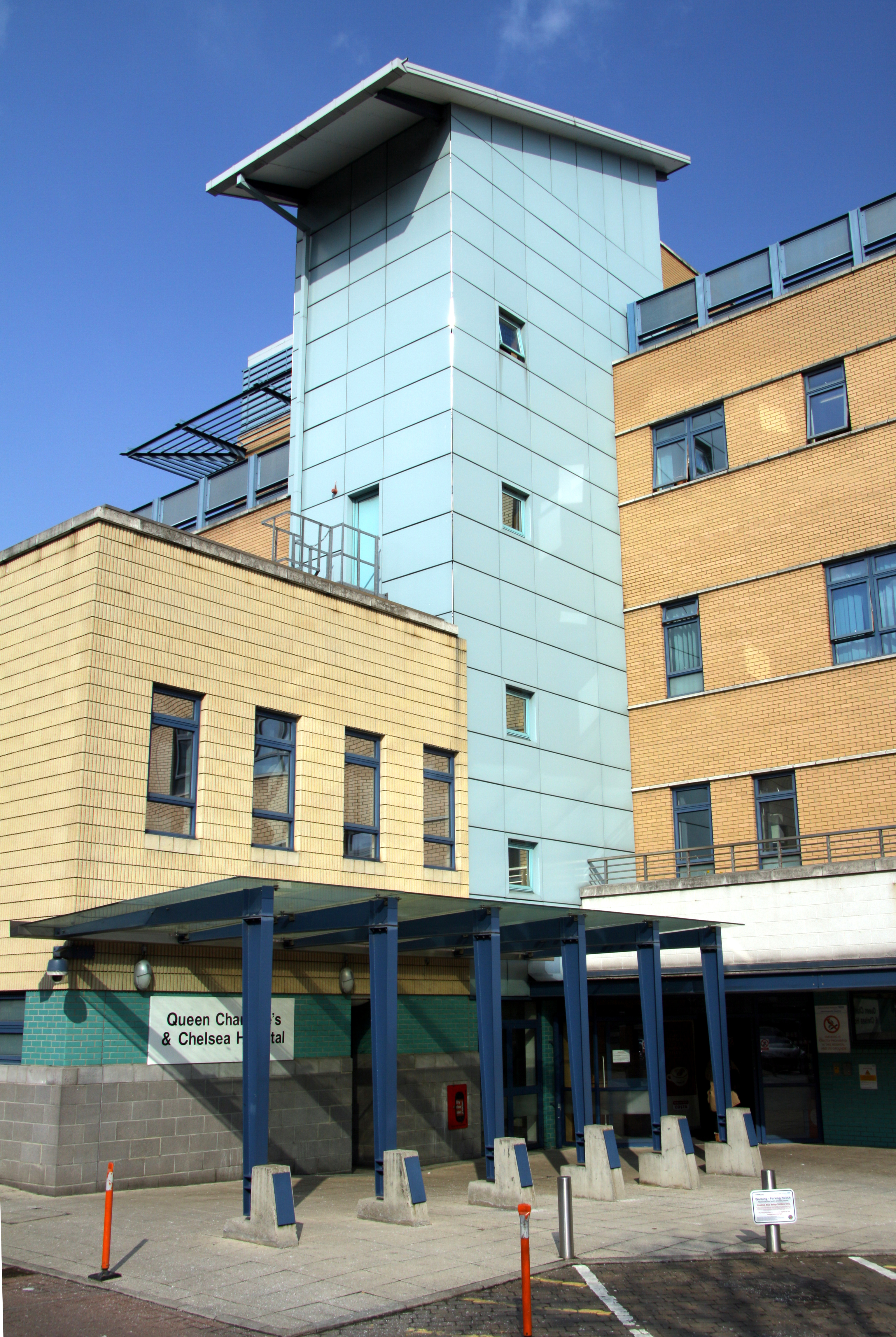 Queen Charlotte's and Chelsea Hospital in London, England, Great Britain